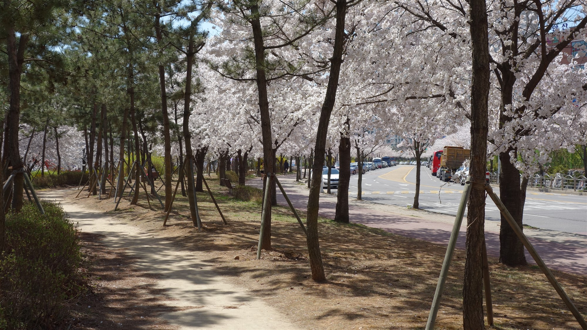 Cherry blossoms on the bank of the Ansan canals, South Korea